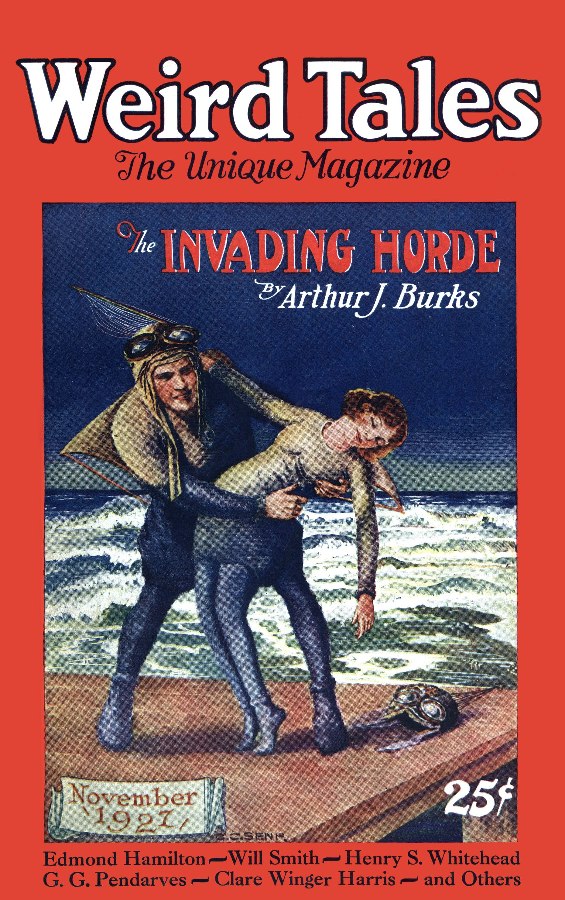 Cover of the pulp magazine Weird Tales (Nov 1927, vol. 10, no. 5) featuring The Invading Horde by Arthur J. Burks.